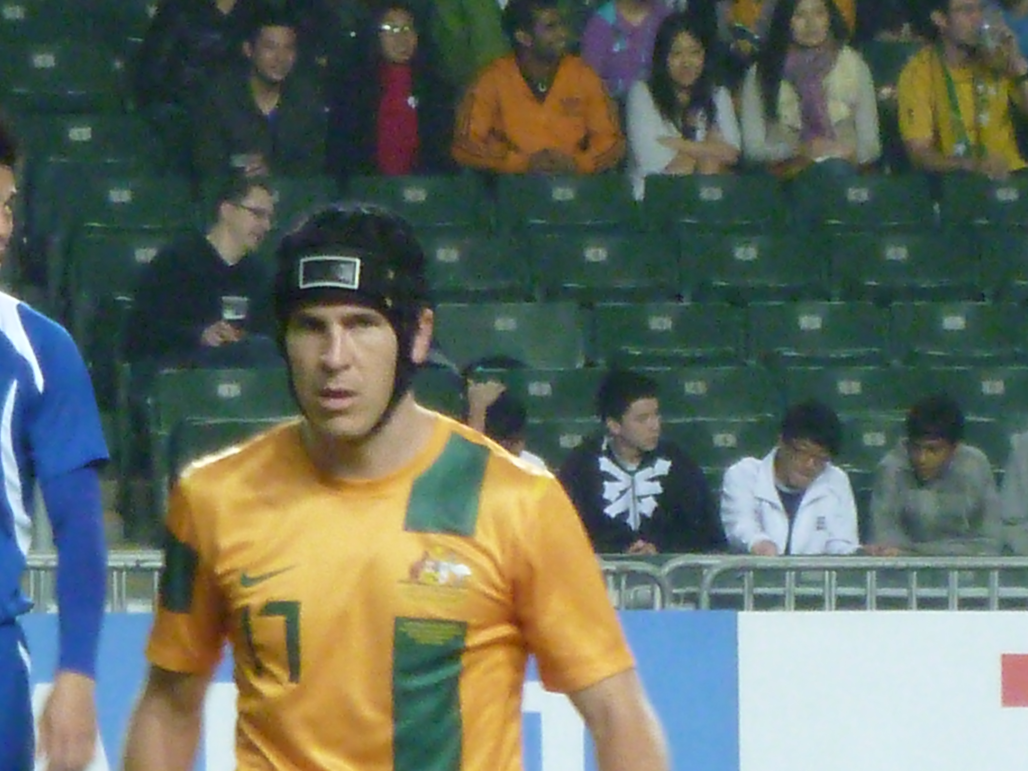 Matt McKay (9 Dec 2012, EAFF East Asian Cup 2013 Preliminary Competition Round 2, Australia vs Chinese Taipei, Hong Kong Stadium) 中文（香港）: 麥奇 (9 Dec 2012, 2013東亞盃外圍賽第二圈, 澳洲 vs 中華台北, 香港大球場)